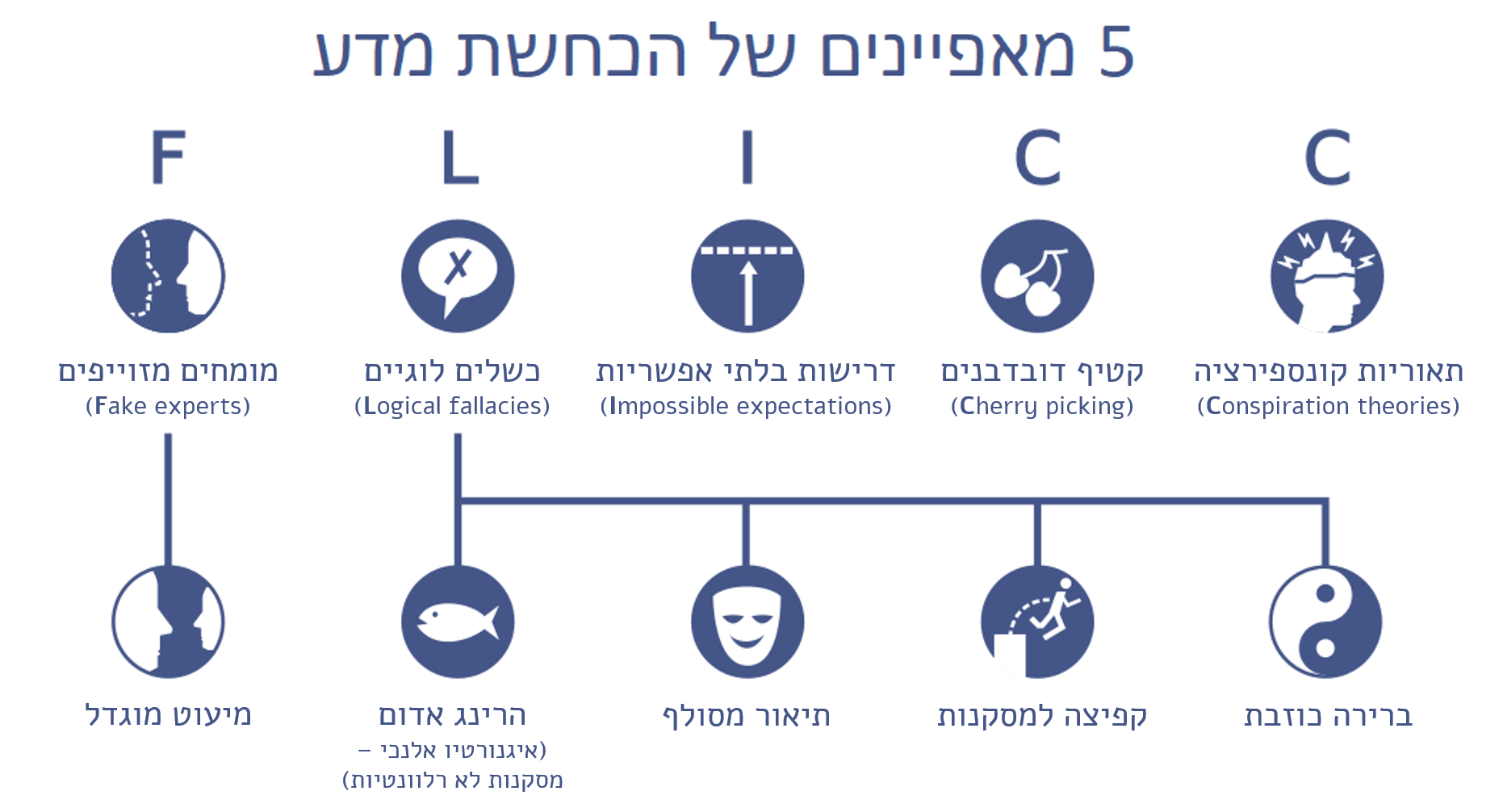 5 מאפיינים של הכחשת מדע